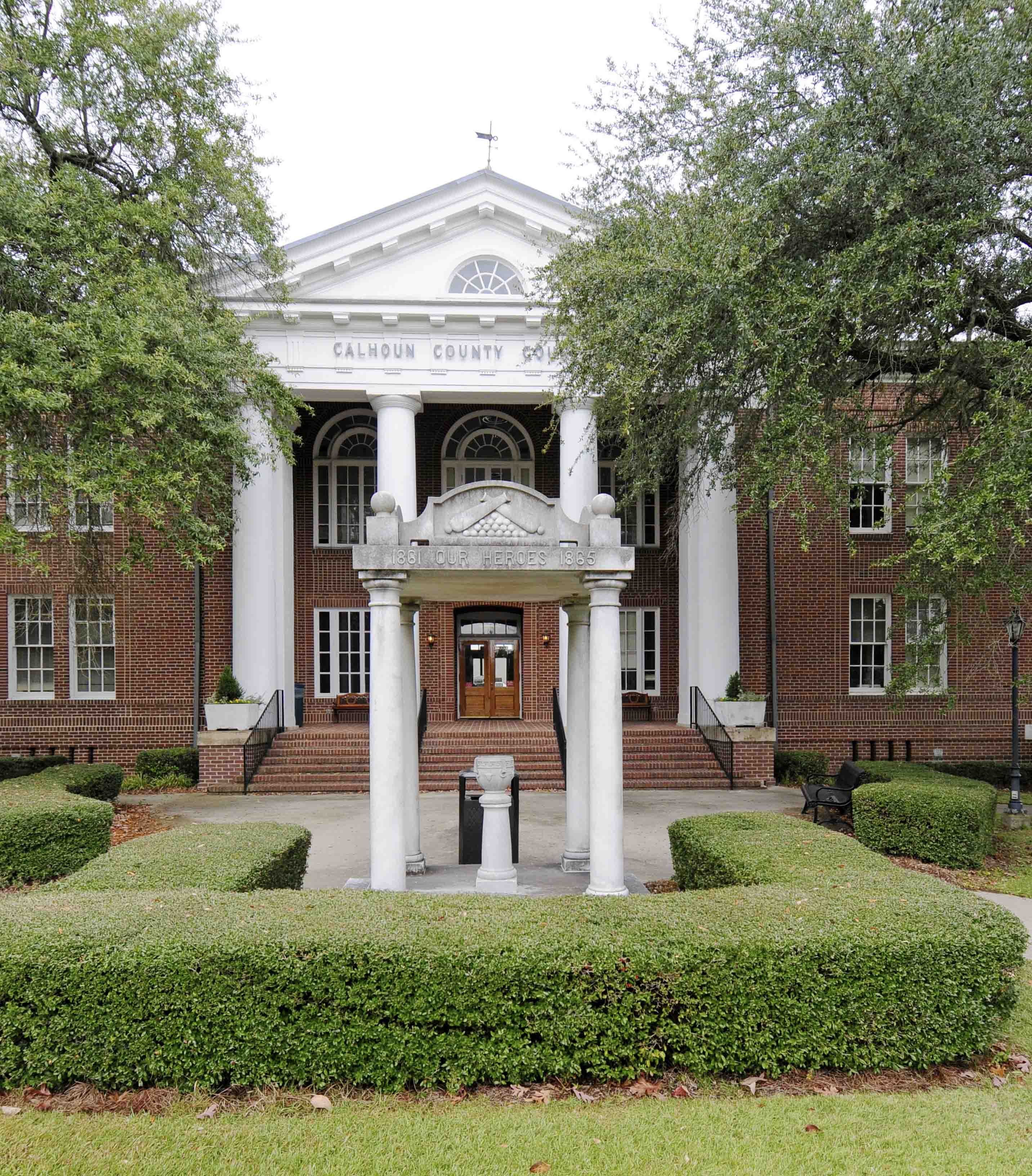 Calhoun County Courthouse, St. Mathews, South Carolina